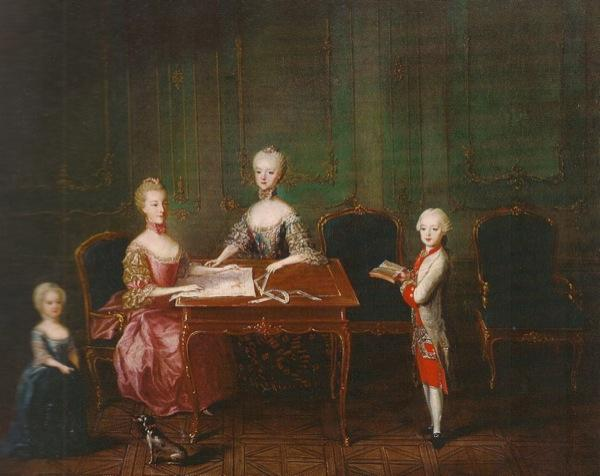 Archduchesses Maria Theresa, Maria Carolina and Maria Antonia with Archduke Max